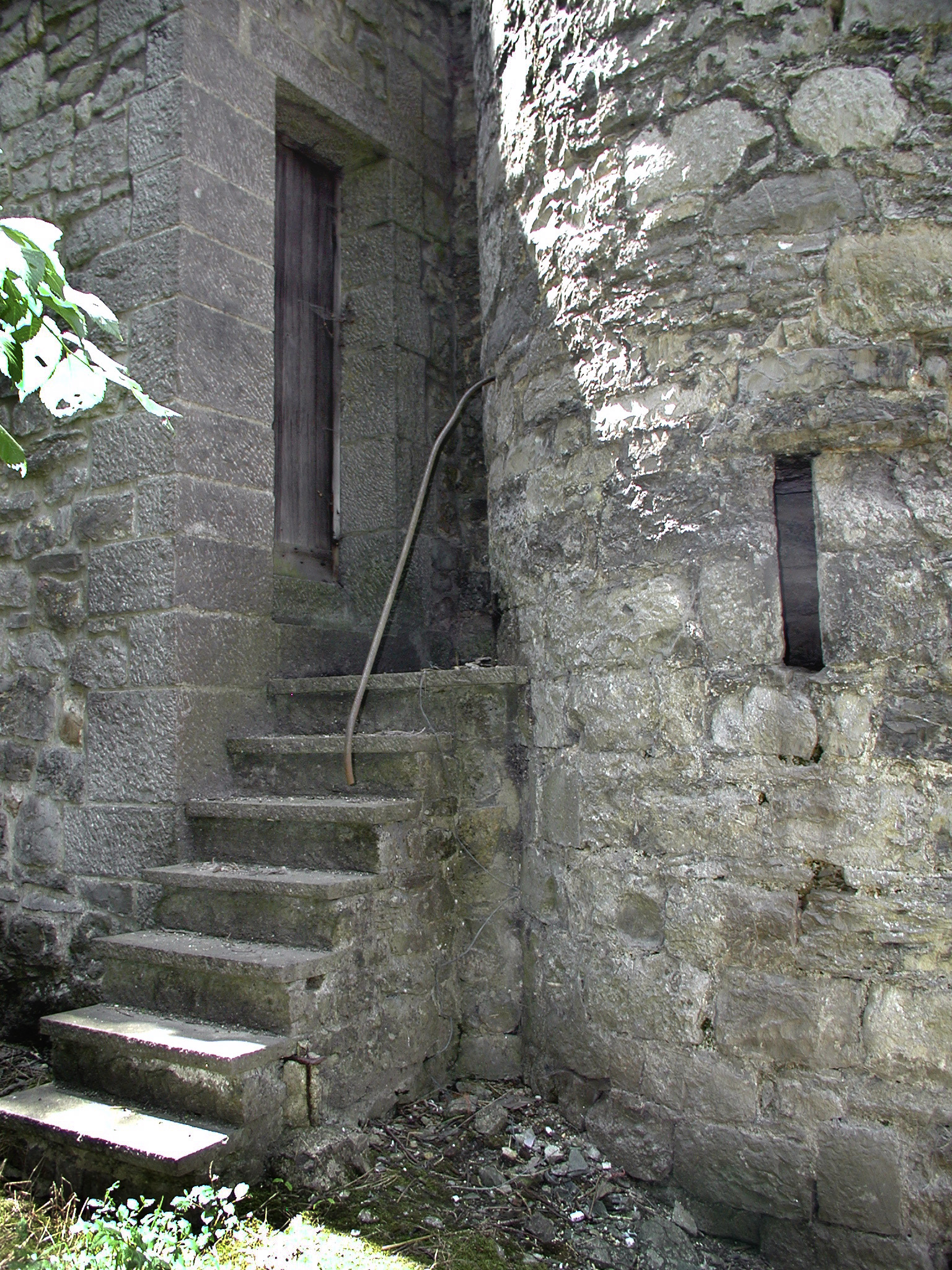 A small door of the castle